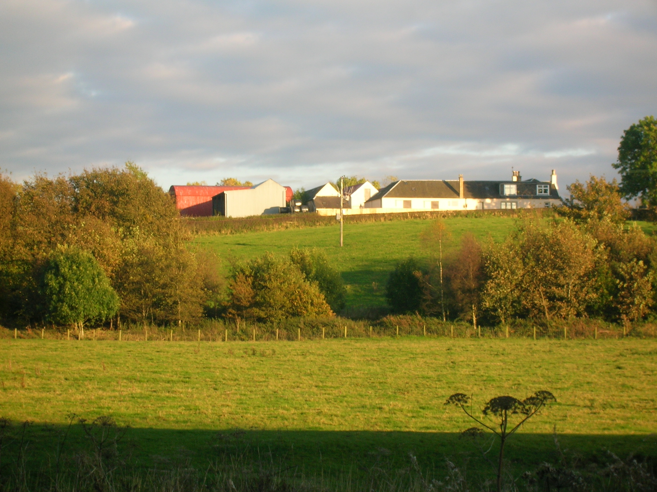 Peacockbank farm, Stewarton, East Ayrshire, Scotland.